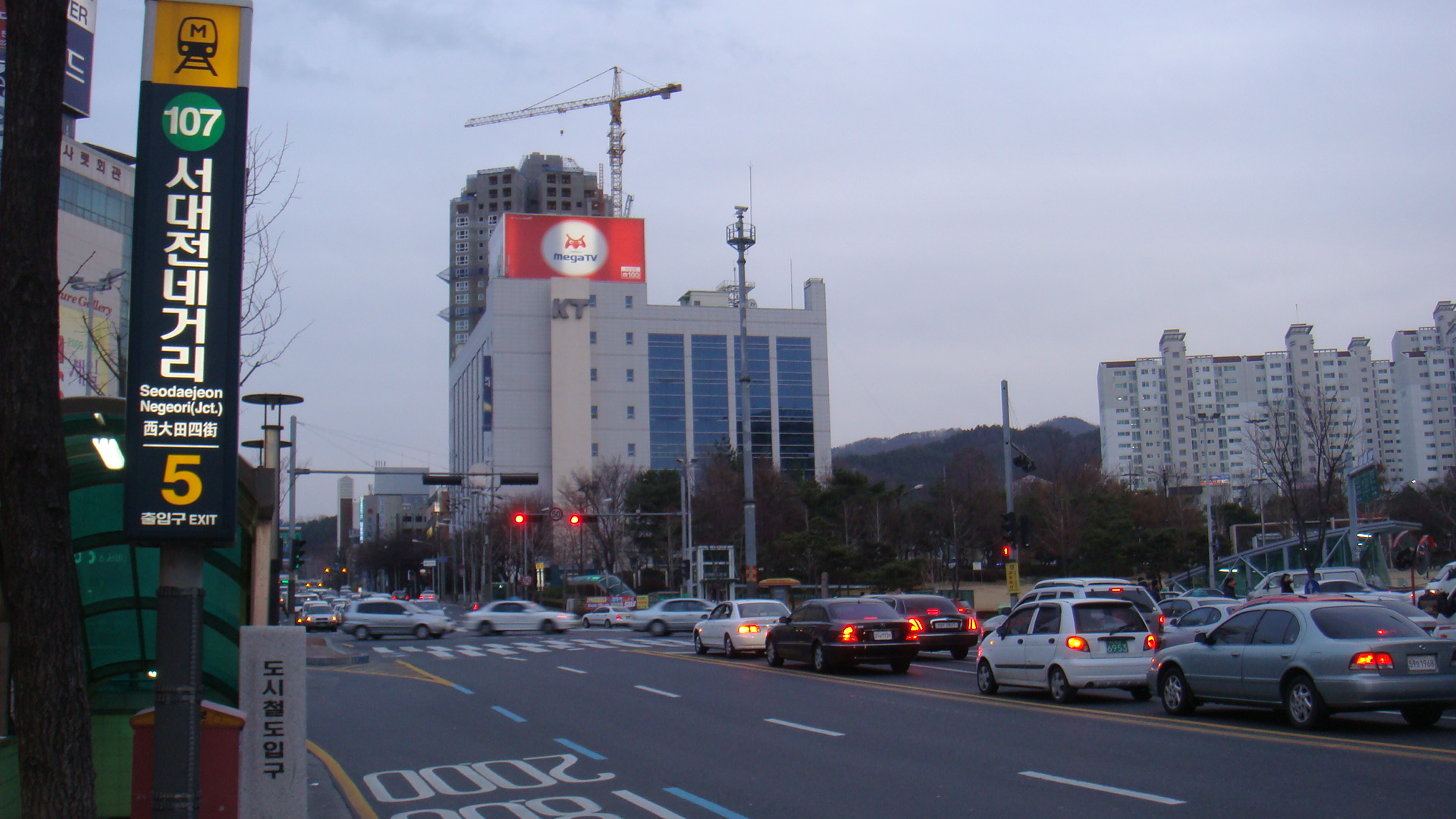 thanks to the Commonist